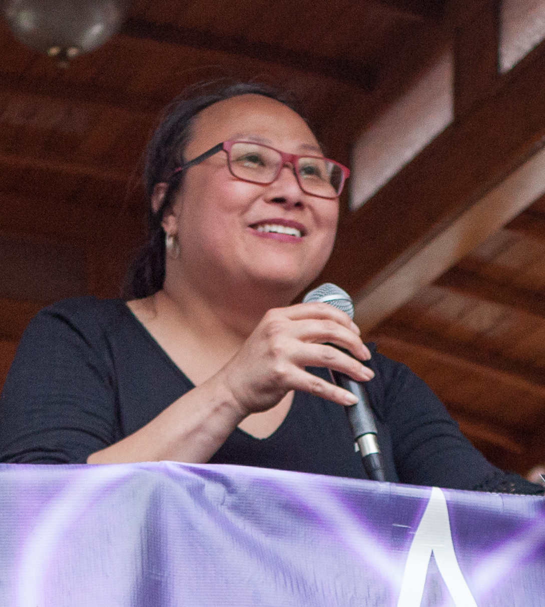 Cecilia Chung speaks at Trans March San Francisco 2017.